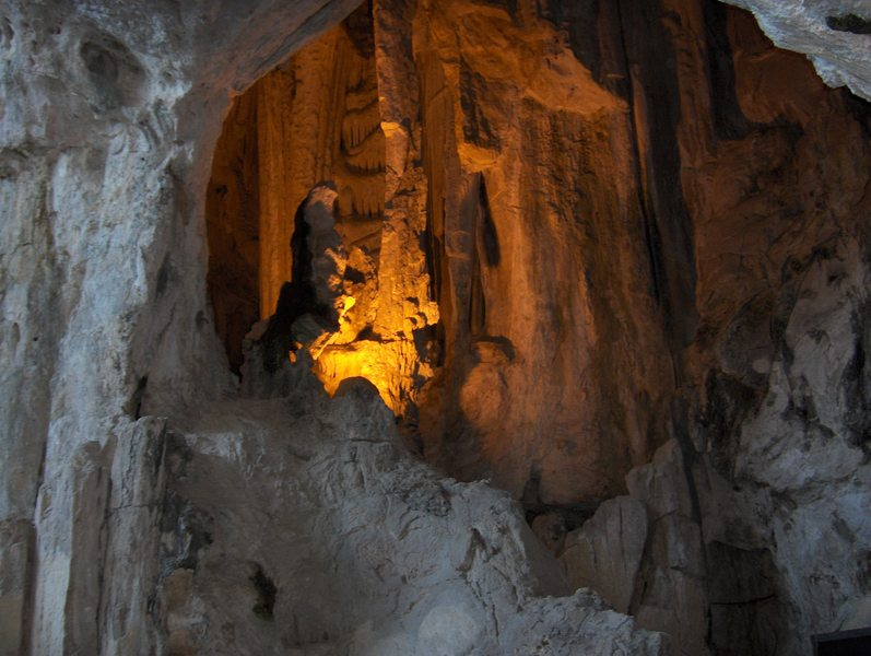 "Grutas de García". Caves in "García" municipality of Nuevo León near Monterrey, México.